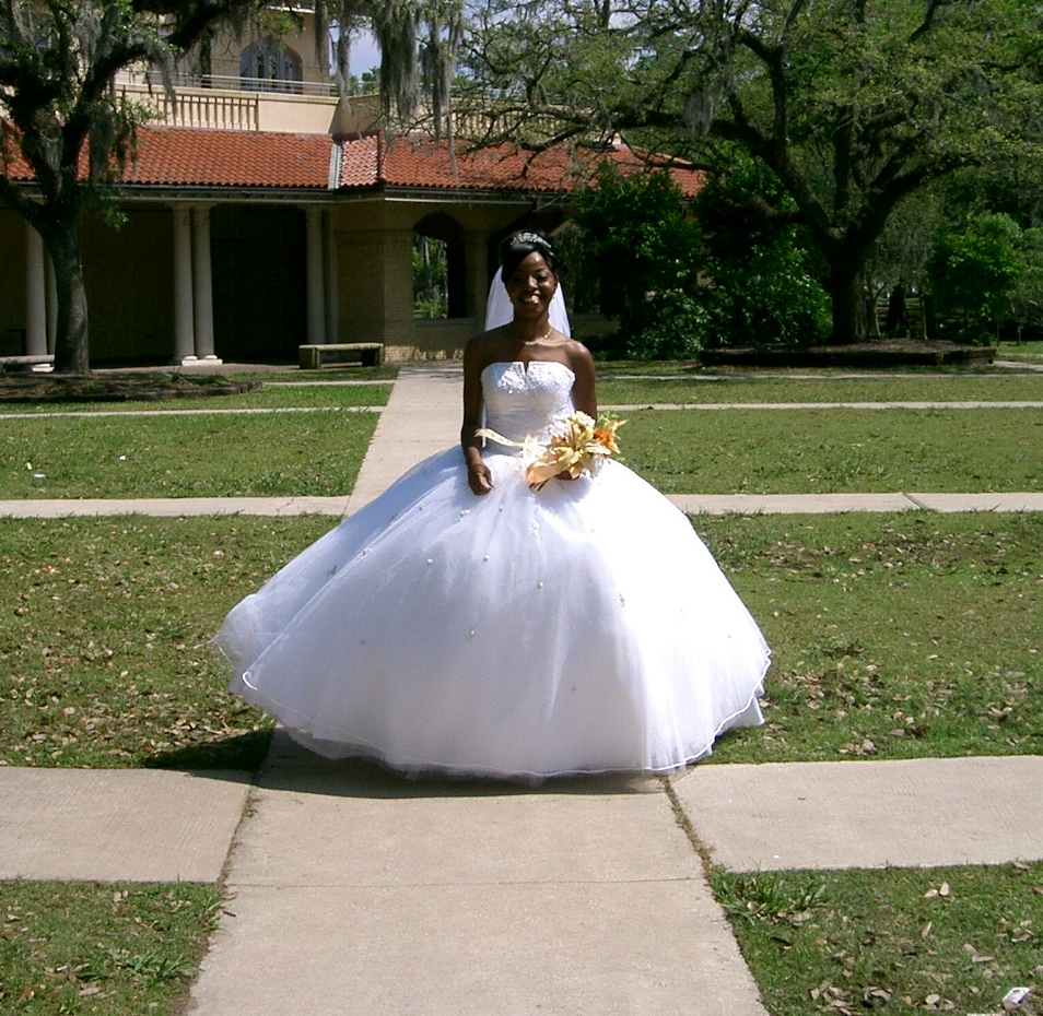 A bride in New Orleans wearing a strapless white dress with huge crinoline skirt